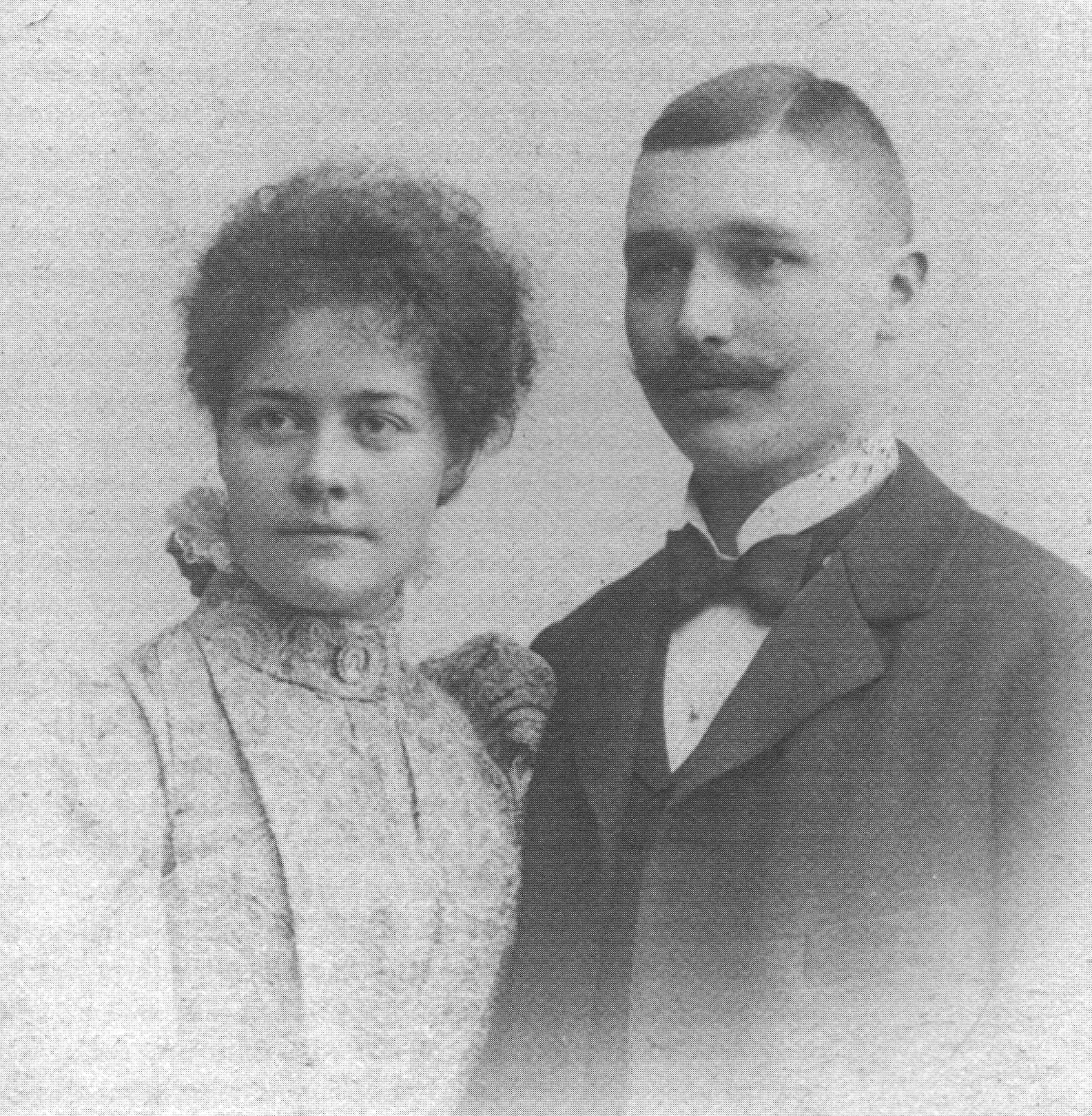 The balloonist Nils Strindberg together with his fiance Anna Charlier. Ballongfareren Nils Strindberg sammen med sin forlovede Anna Charlier